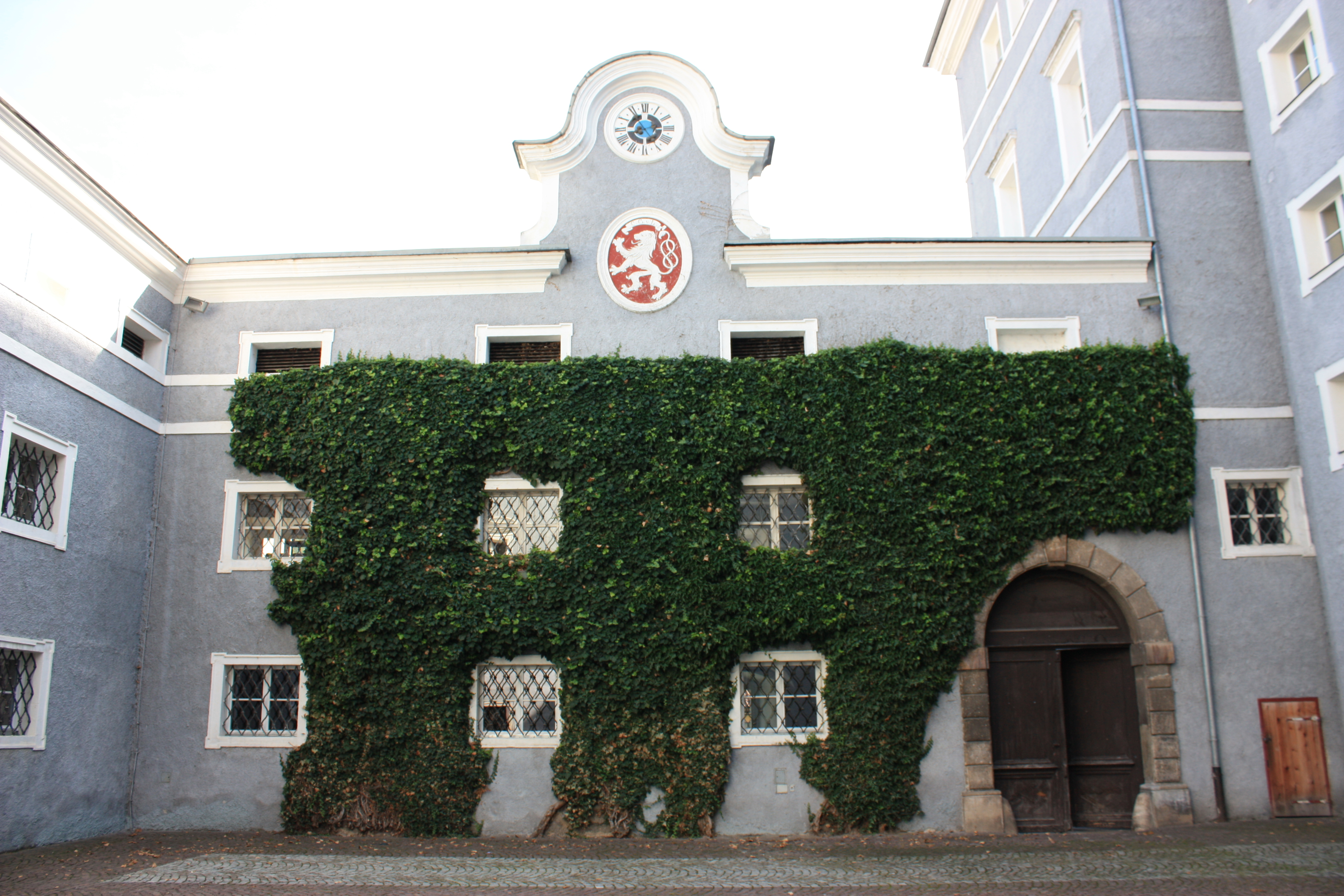 Lodron Castle - Court Locality:Hauptplatz Community:Gmünd